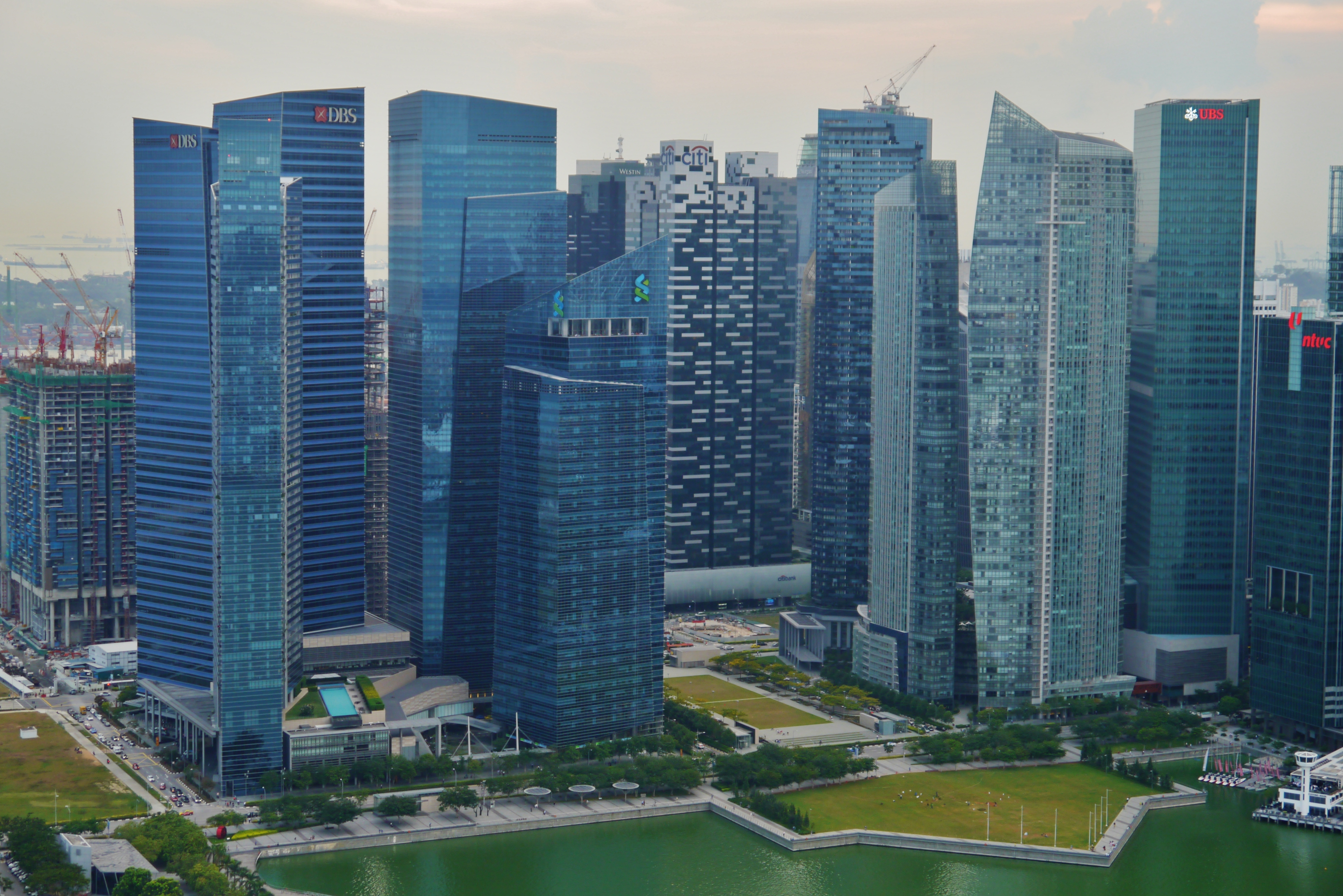 View from Marina Bay Sands to Marina Bay Financial Centre, Singapore